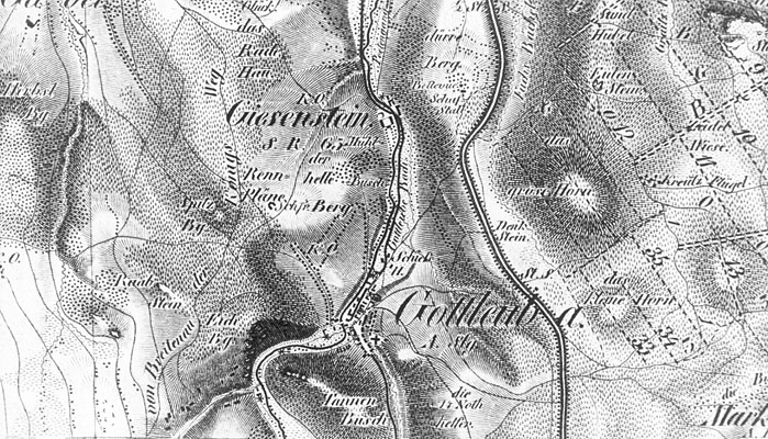 Gottleuba and Giesenstein in an topographic atlas from 1821